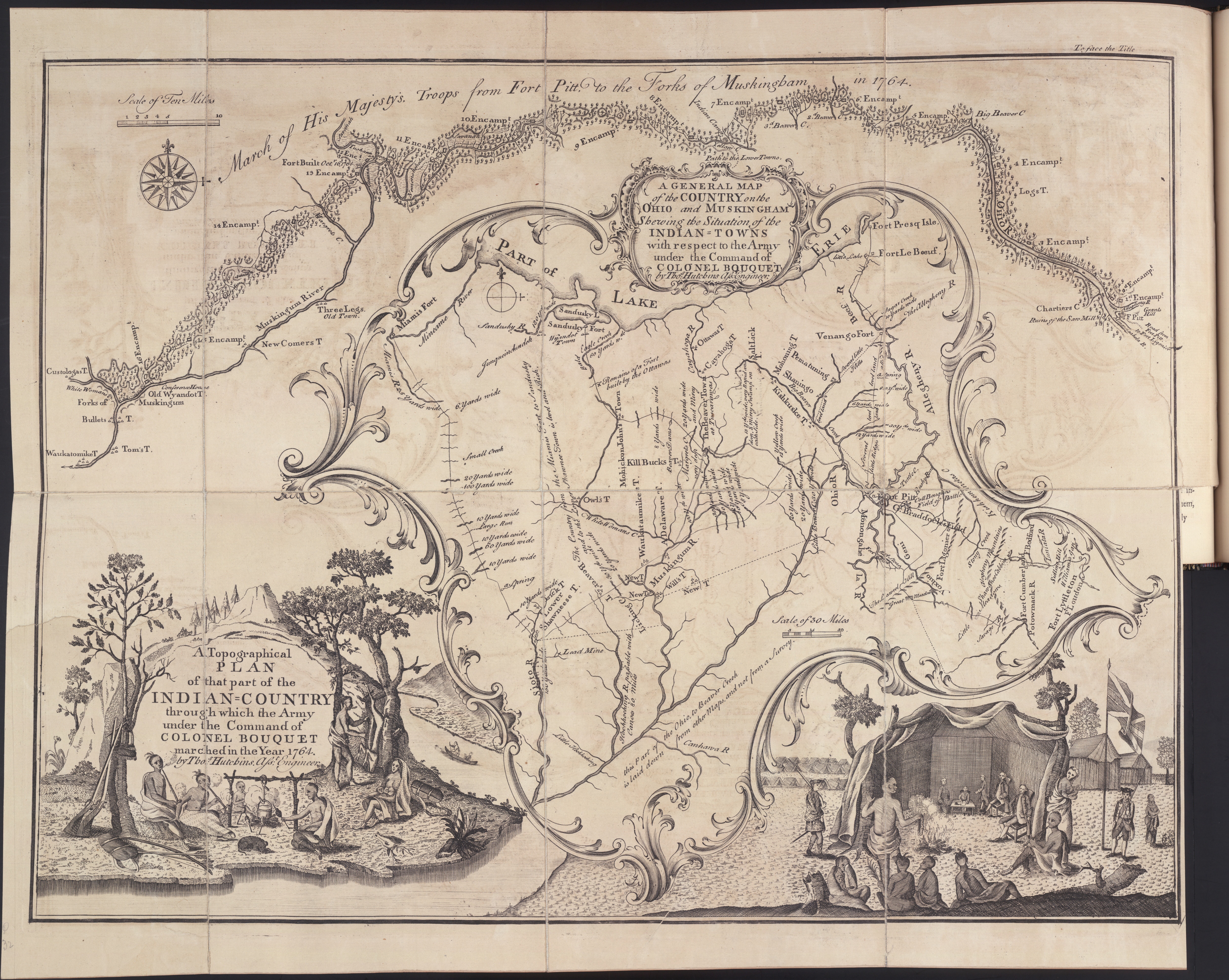 A GENERAL MAP of the COUNTRY on the OHIO and MUSKINGHAM Shewing the Situation of the INDIAN = TOWNS with respect to the ARMY under the Command of COLONEL BOUQUET by Tho's Hutchins Ass't Engineer A Topographical PLAN of that part of the INDIAN = COUNTRY through which Army under the Command of COLONEL BOUQUET marched in the Year 1764 by Tho's Hutchins. Ass't Engineer